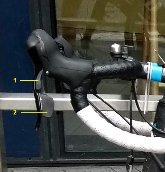 Microshift R8 gear shifters for the chainrings. There are two levers to move the chain up or down one gear at a time.